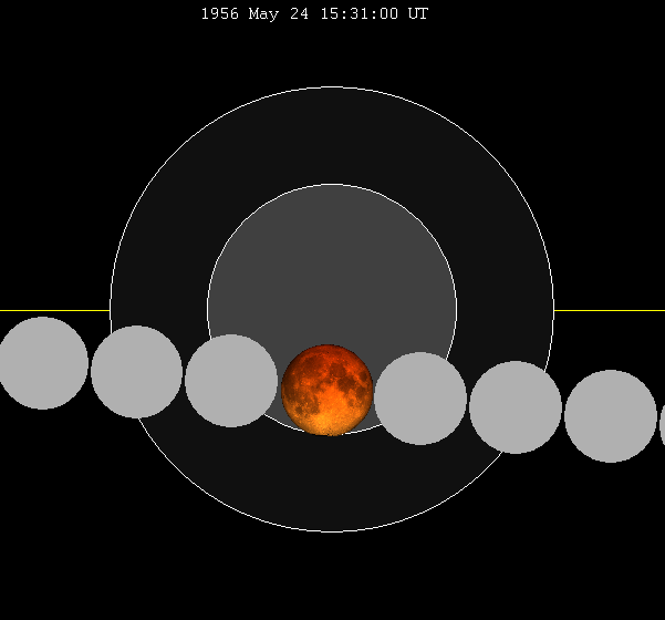 May 1956 lunar eclipse chart of moon's path through the earth's shadow. thumb